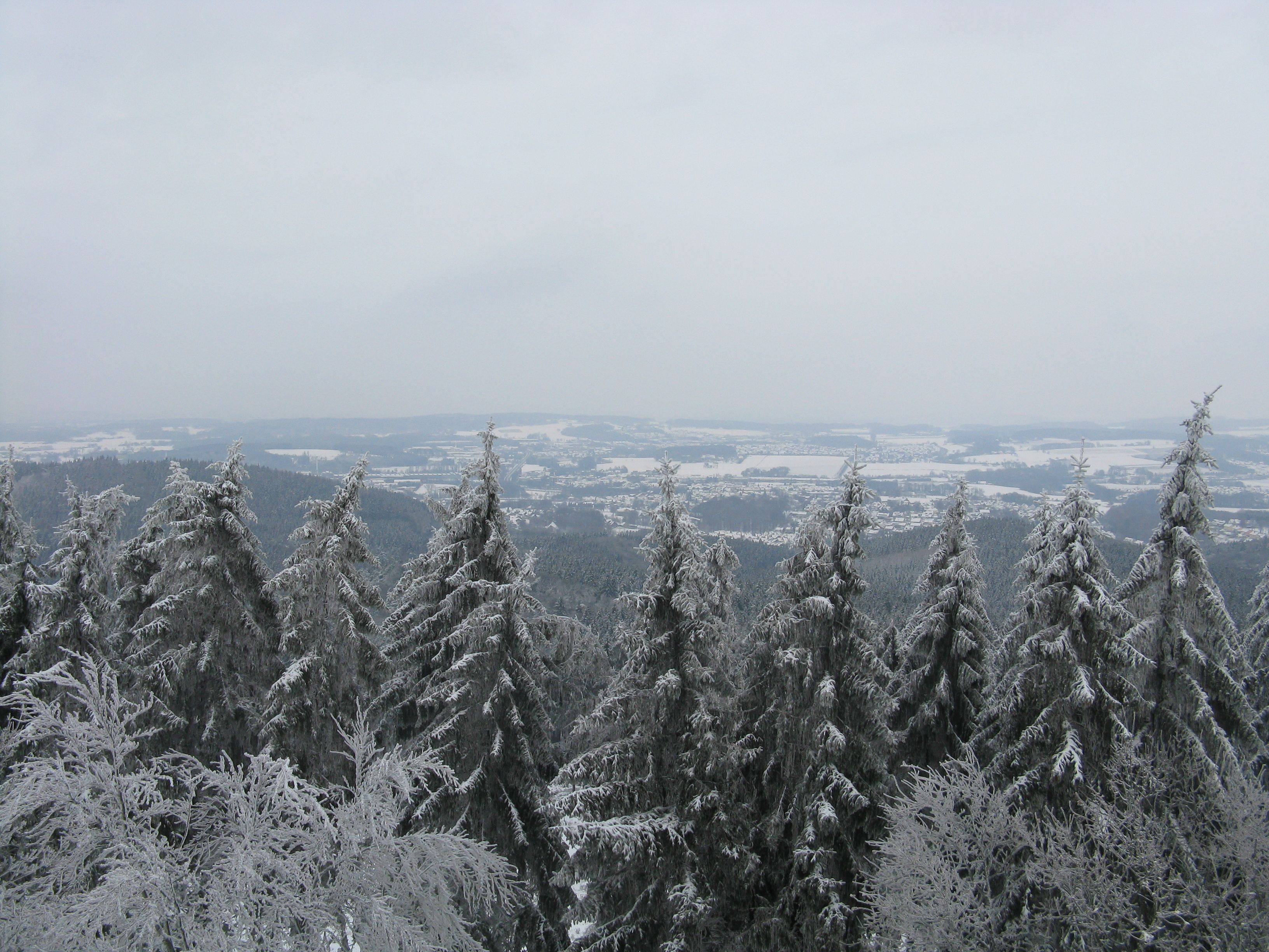 Teutoburg Forest: View over Osnabrück Land